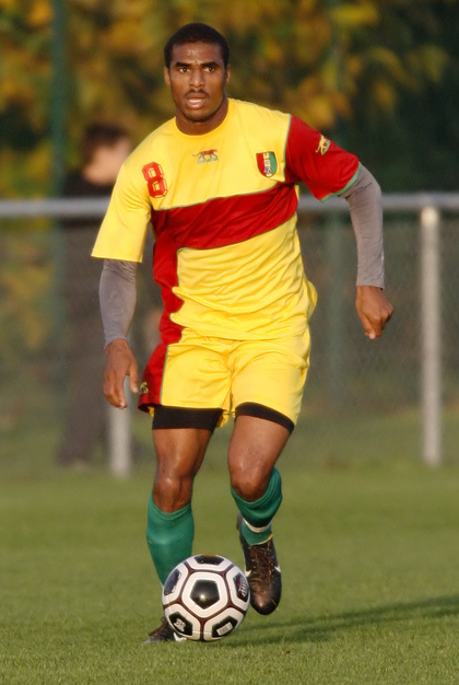 Kanfory Sylla, Guinean football player, during Guinean national team friendly match against the Stade Rennais youth team.